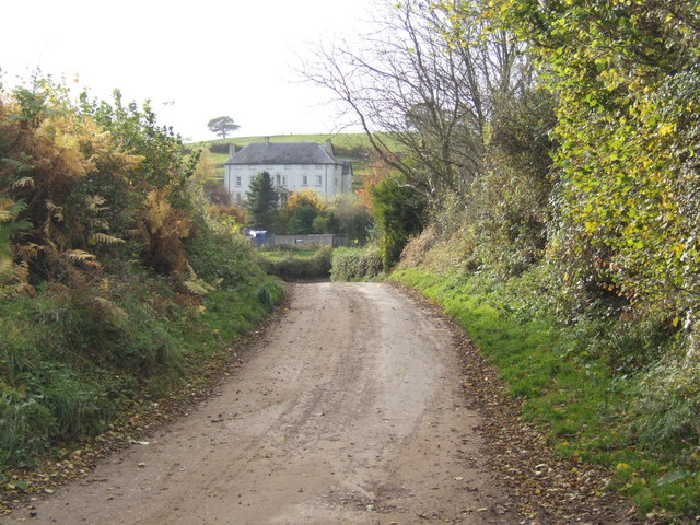 View down the lane The substantial building is (appropriately) Great House.